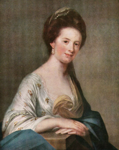 Portrait of Mary Hay, 14th Countess of Erroll (d. 1758)